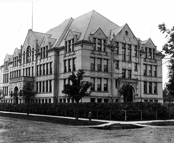 Old North High School before fire, Seventeenth and Fremont Avenue North, Minneapolis. Photograph Collection ca. 1902 Location no. MH5.9 MP5.2 p14 Negative no. 20945